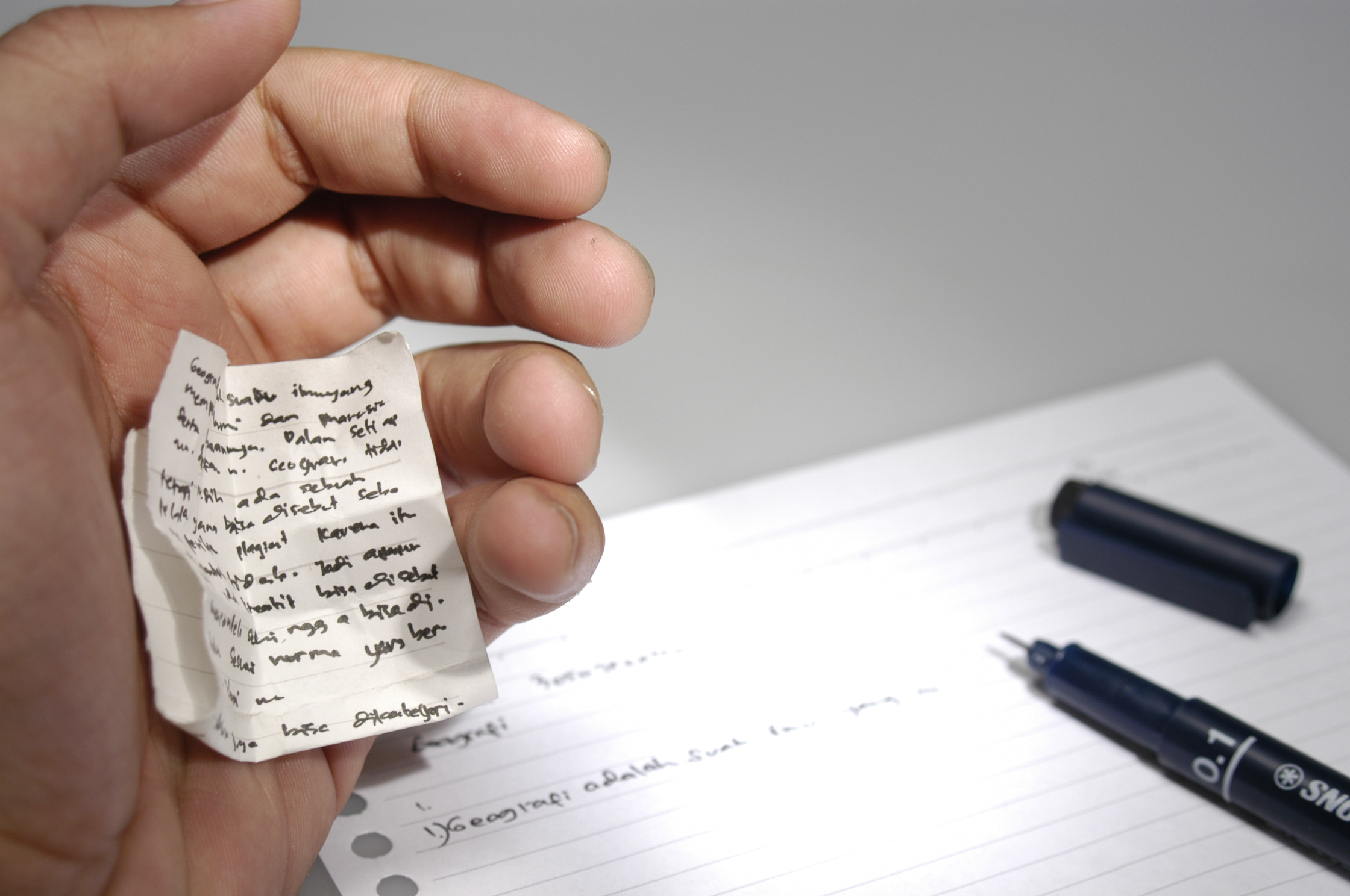 Illustration for Cheating